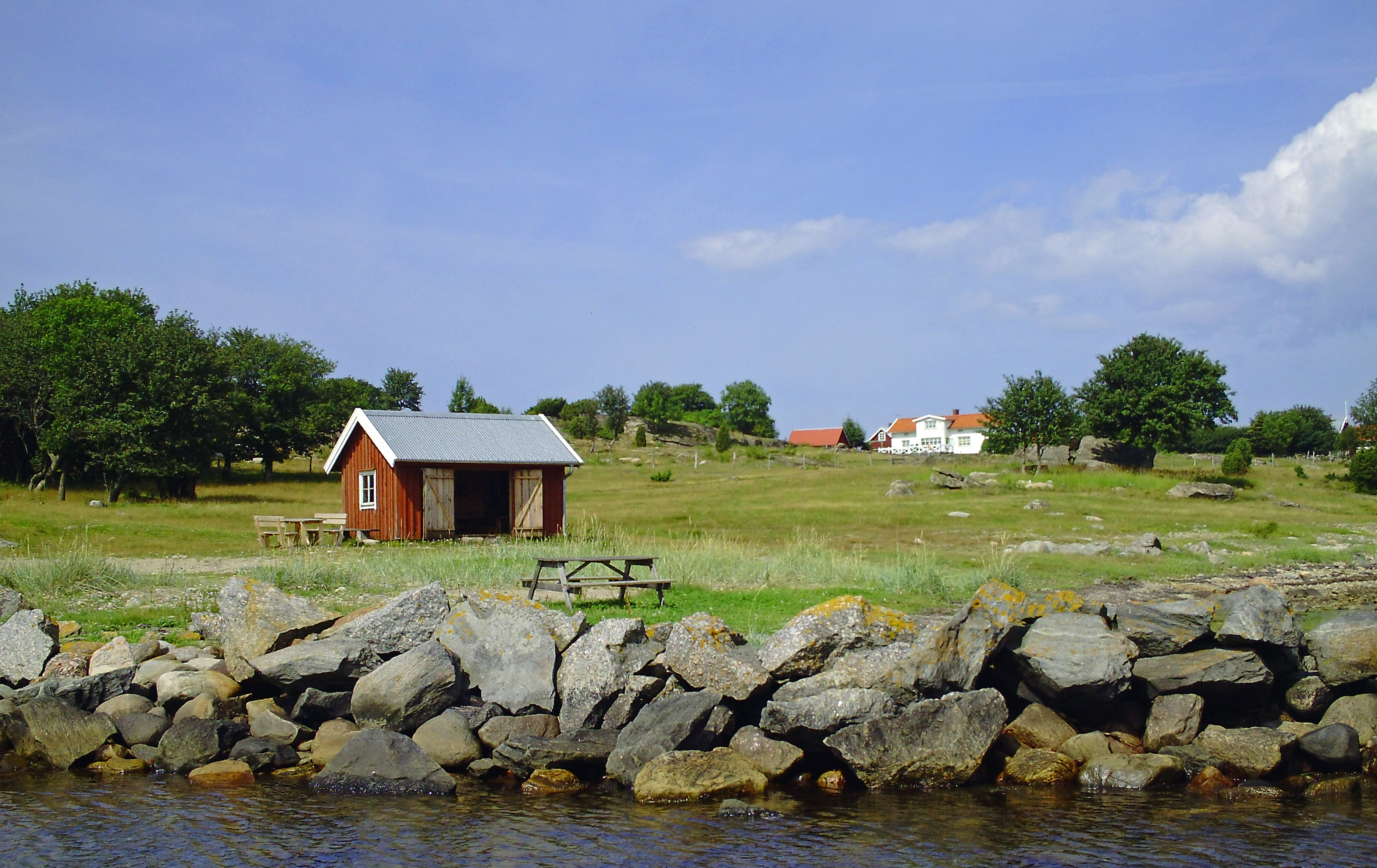 Vendelsö.